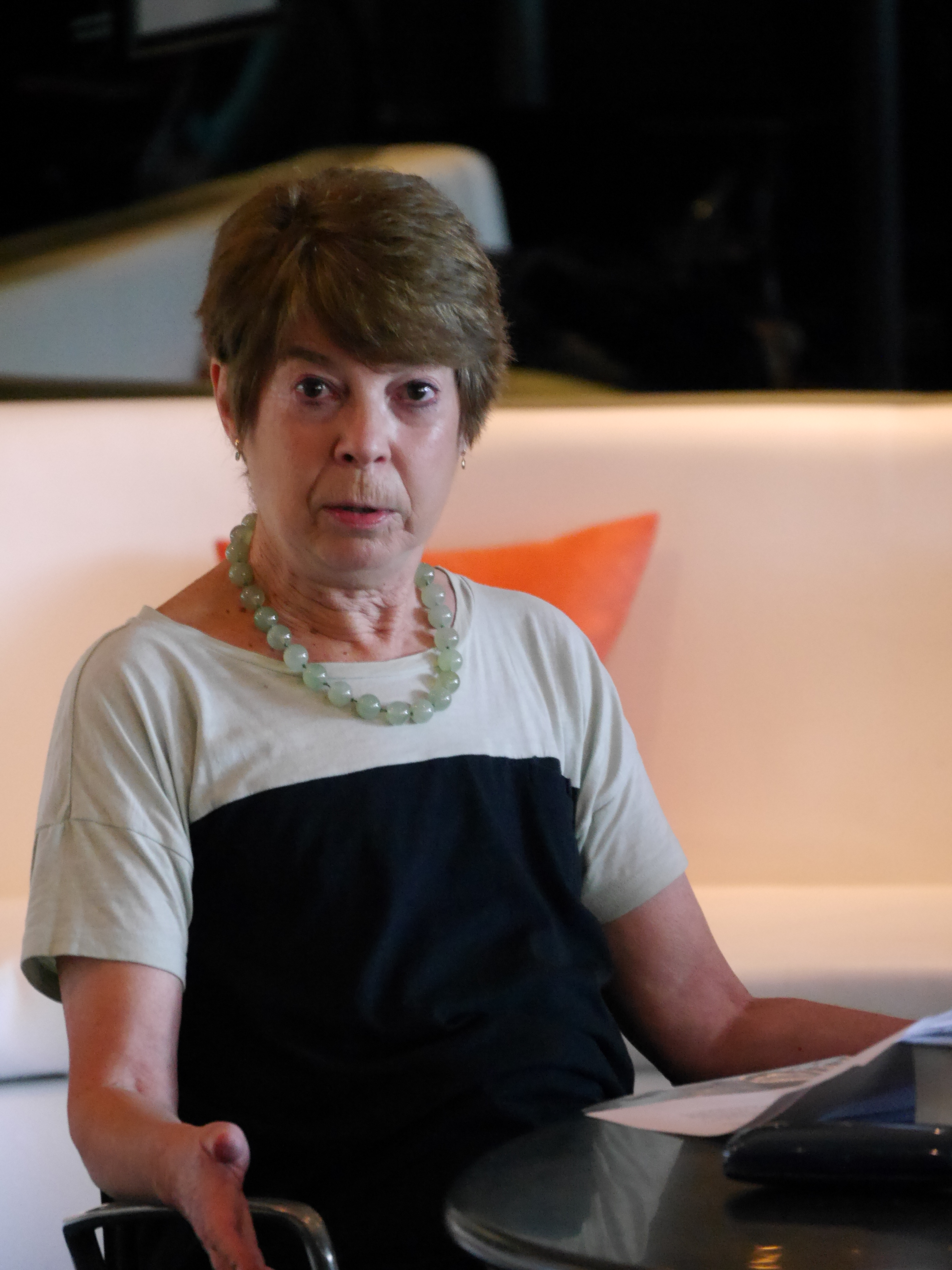 Royal Ballet editathon, October 2014